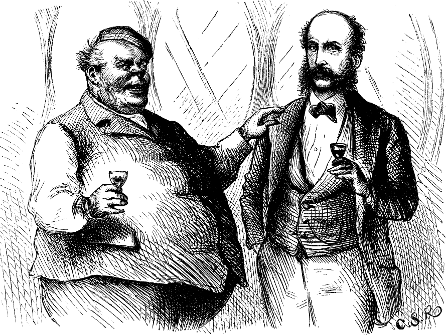 Holland and the Hollanders